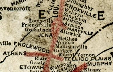 Detail of a 1913 map showing the Louisville and Nashville Railroad (L&N) tracks in central East Tennessee, in the southeastern United States.